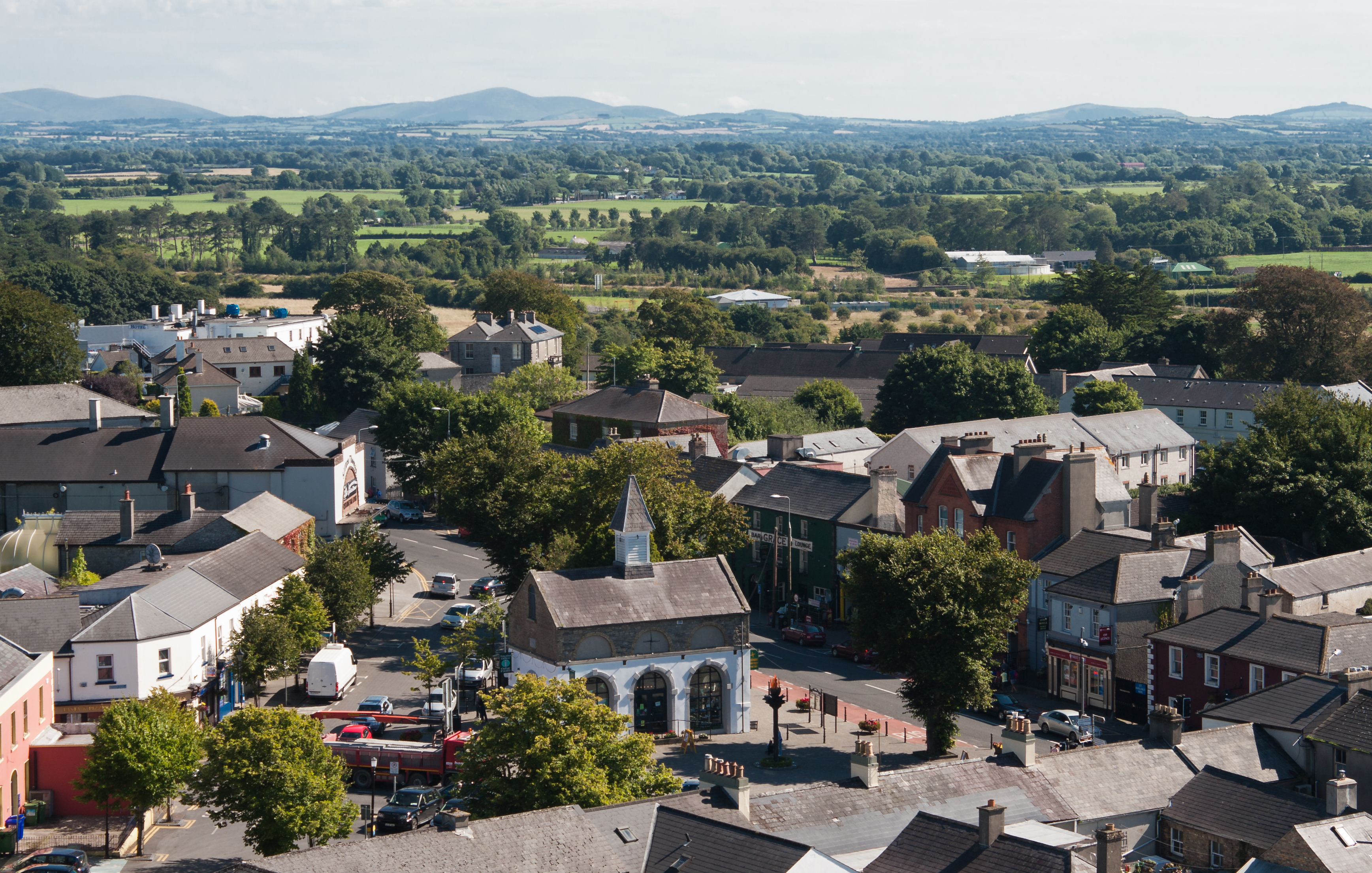 Market square and heritage centre as seen from the top of the round tower of St. Brigid's Cathedral.